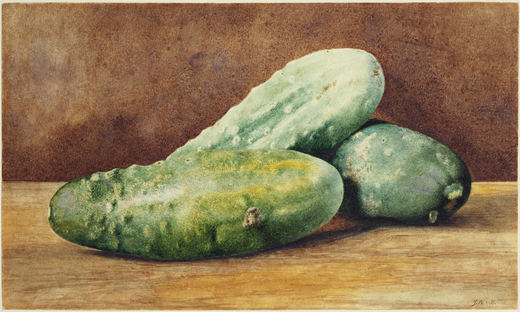 John William Hill, American, 1812–1879 Cucumbers, ca. 1860 Watercolor on cream wove paper 18.9 x 31.7 cm. (7 7/16 x 12 1/2 in.) Museum purchase, Laura P. Hall Memorial Fund x1991-73 Around 1855, after reading Ruskin’s influential Modern Painters, John William Hill changed course and adopted a style closer to that of his son, John Henry Hill, a Pre-Raphaelite artist. The elder Hill began to paint watercolors directly from nature, employing a stipple technique of tiny dots of color in place of his previous method of broad washes cohered by an underlying drawing. (Compare Cucumbers with the artist’s earlier Broadway Looking South from Liberty Street, on view in the previous gallery.) The often down-to-earth subjects of Hill’s later work accord well with the Ruskinian precept that the most compelling beauty is found in the most ordinary objects.